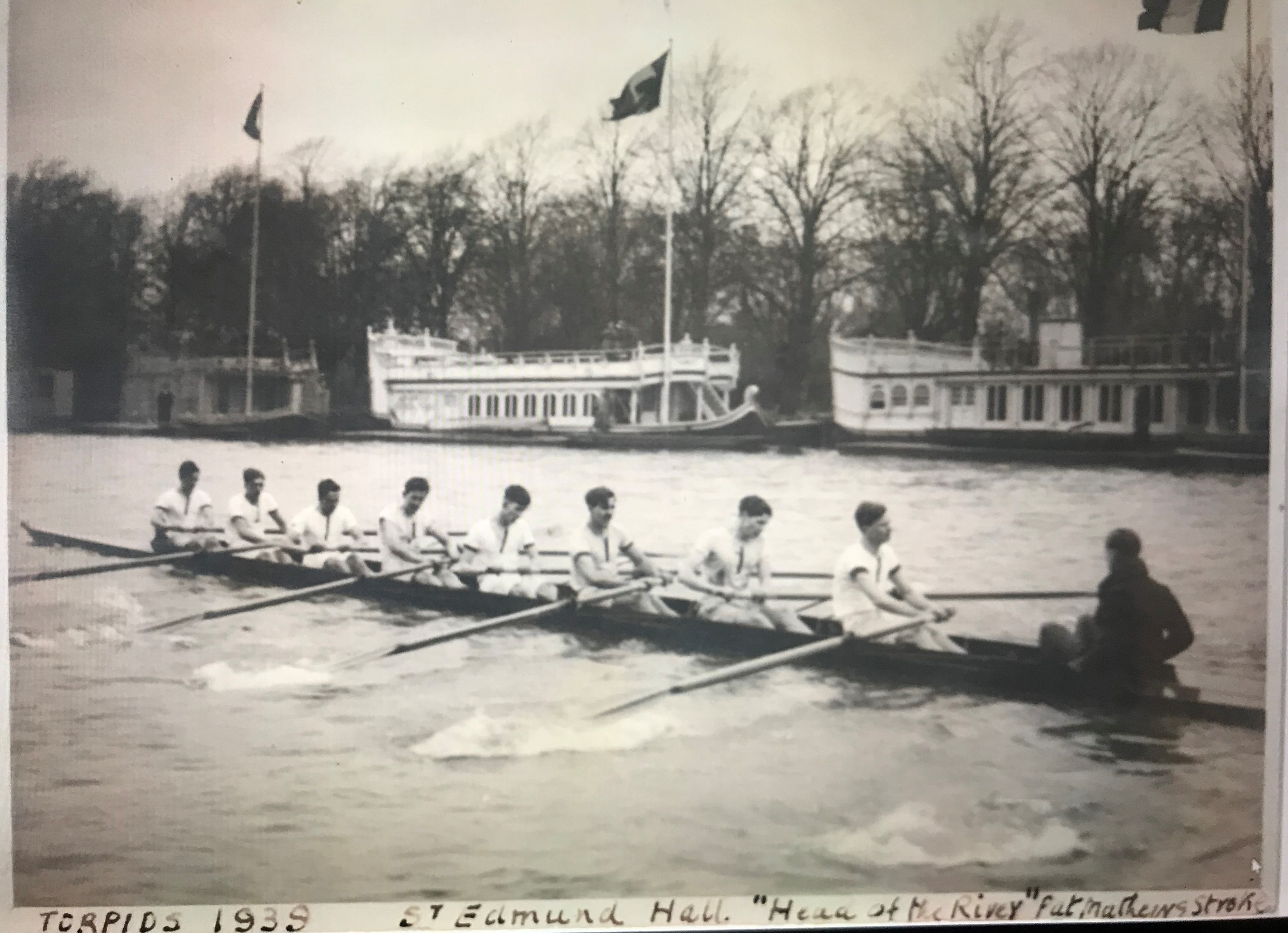 SEH 1st VIII Torpids 1939, Head of the River